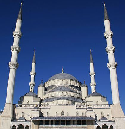 Kocatepe Mosque in Ankara